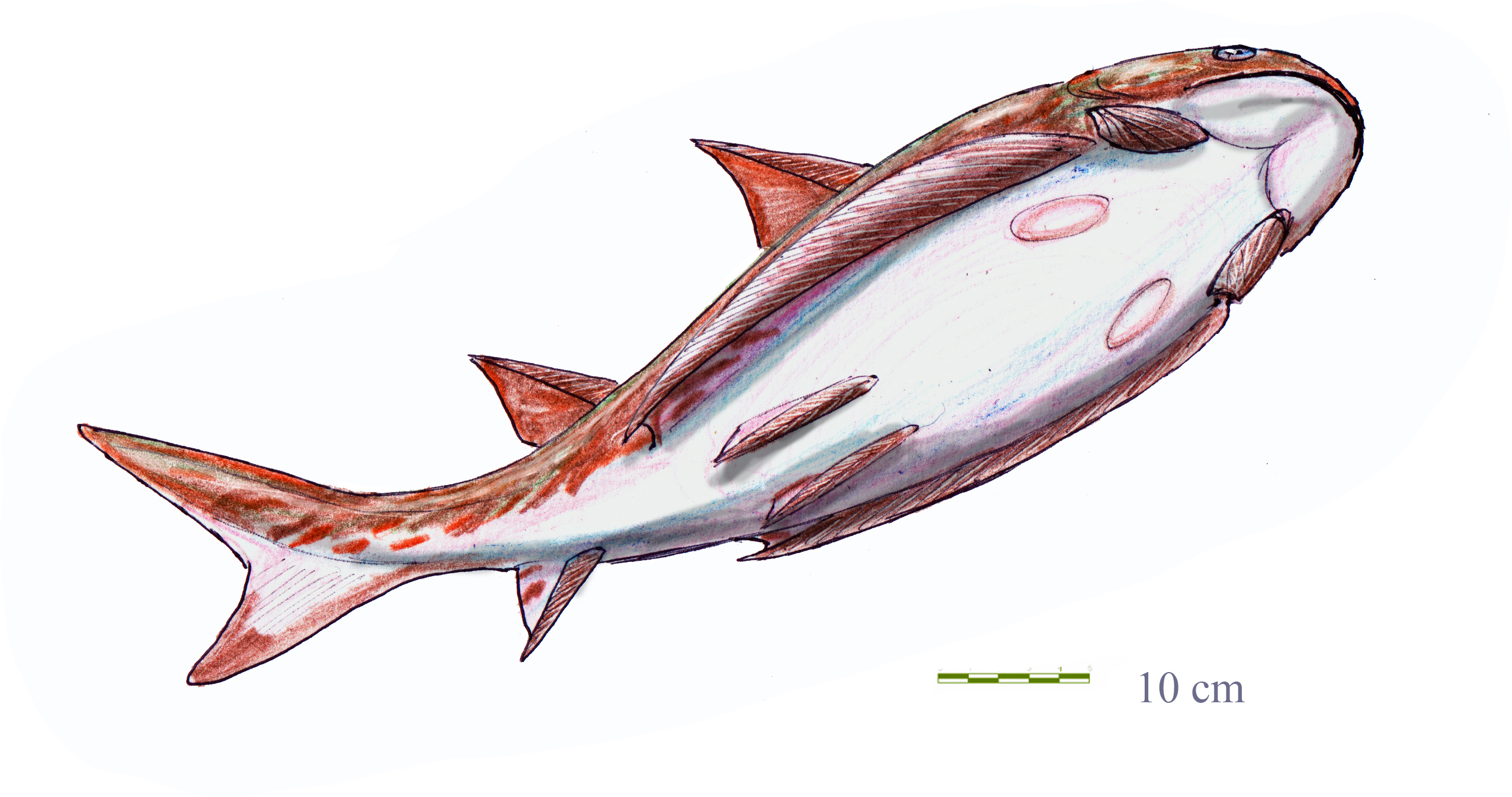 Giant acanthodian Gyracanthides murrayi from the Lower Carboniferous of Mansfield, Victoria, Australia